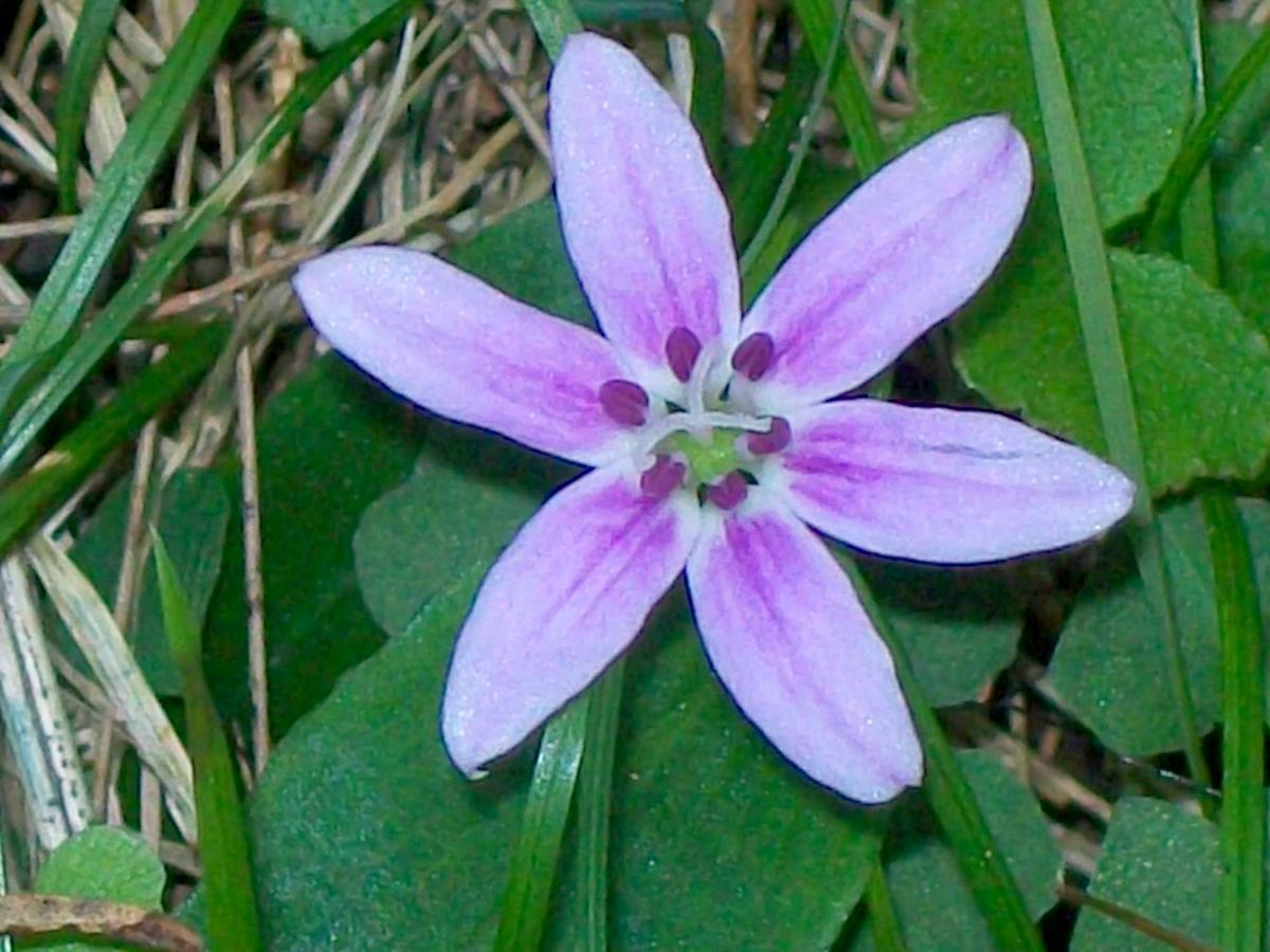 Towlers Bay Track, Ku-ring-gai Chase National Park, probably Schelhammera undulata